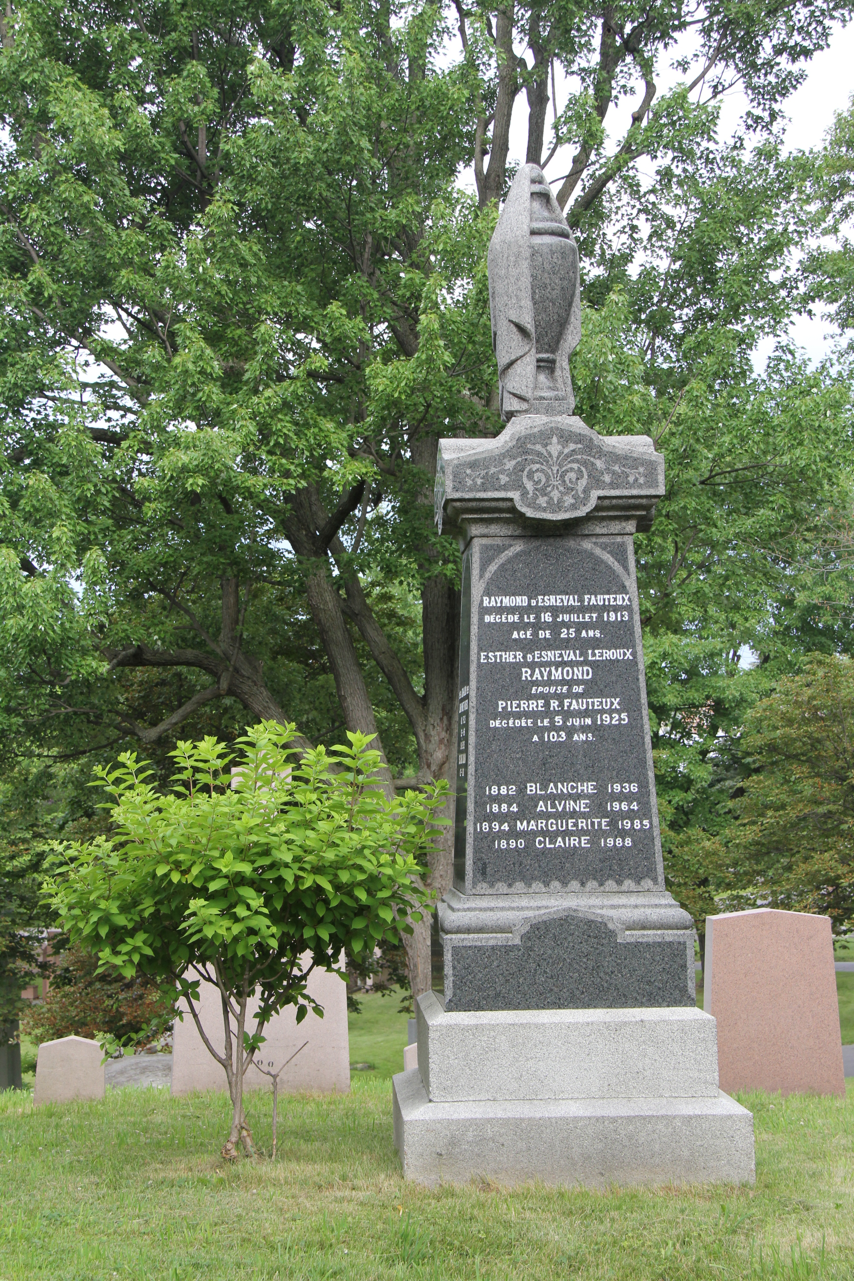 Claire Fauteux’s (1890-1988) tombstone, Notre-Dame-des-Neiges Cemetery (C79), Montreal.